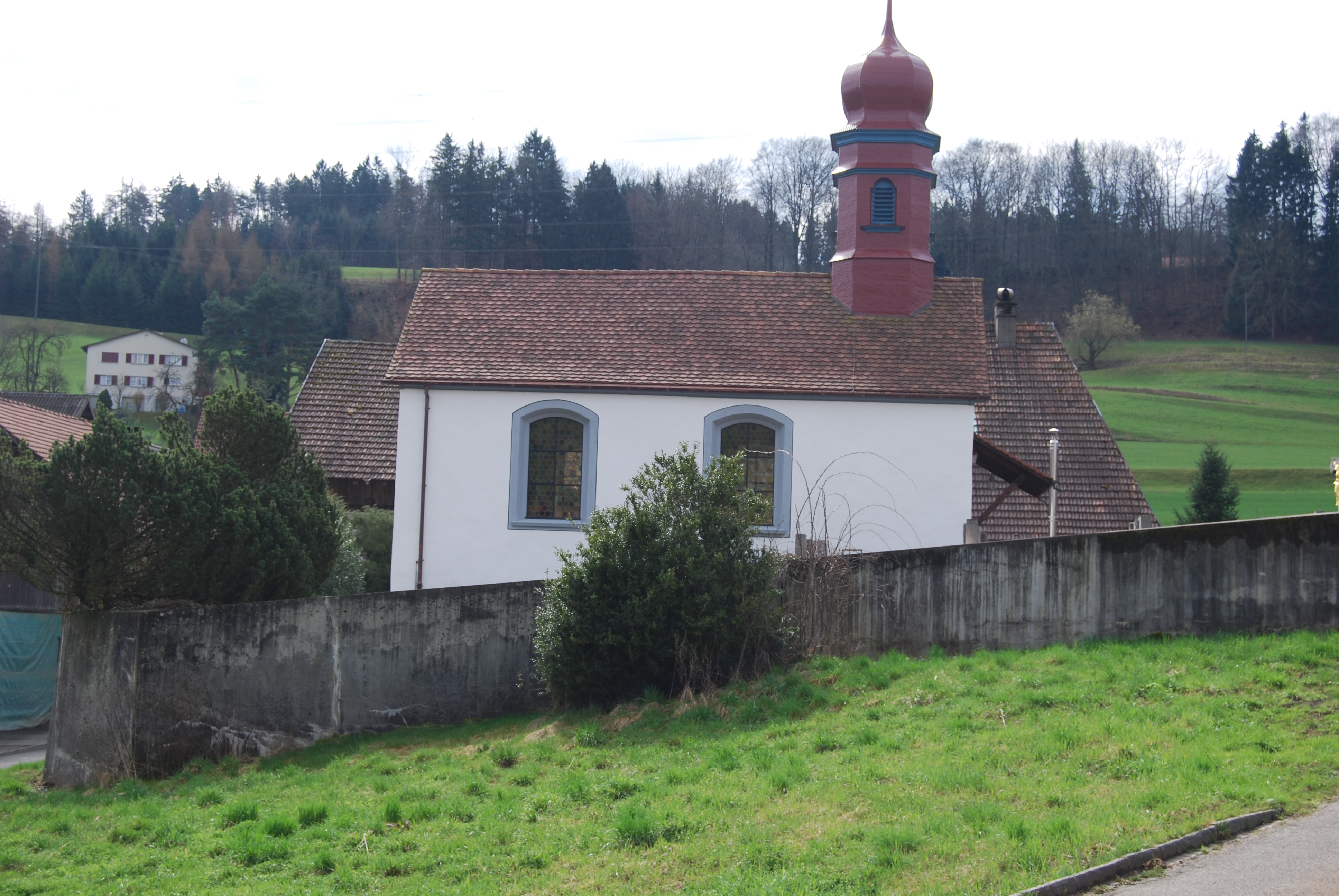 Church of Böbikon, canton of Aargau, SwitzerlandEsperanto: Preĝejo de Böbikon, Kantono Argovio, Svislando